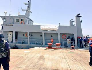 NNS KARADUWA (P102): Made-in-Nigeria warship